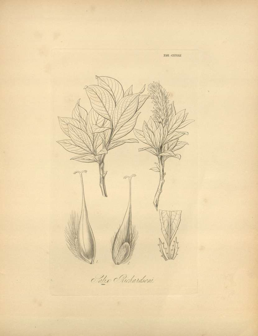 id taxon: 7859 id species: 900536 id illustration: 57454 Link to this page